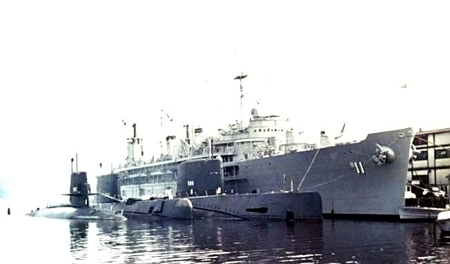 The U.S. Navy submarines USS Skipjack (SSN-585), USS Nautilus (SSN-571) and USS Triton (SSRN-586) alongside the submarine tender USS Fulton (AS-11) at the State Pier in New London, Connecticut (USA), in 1962.